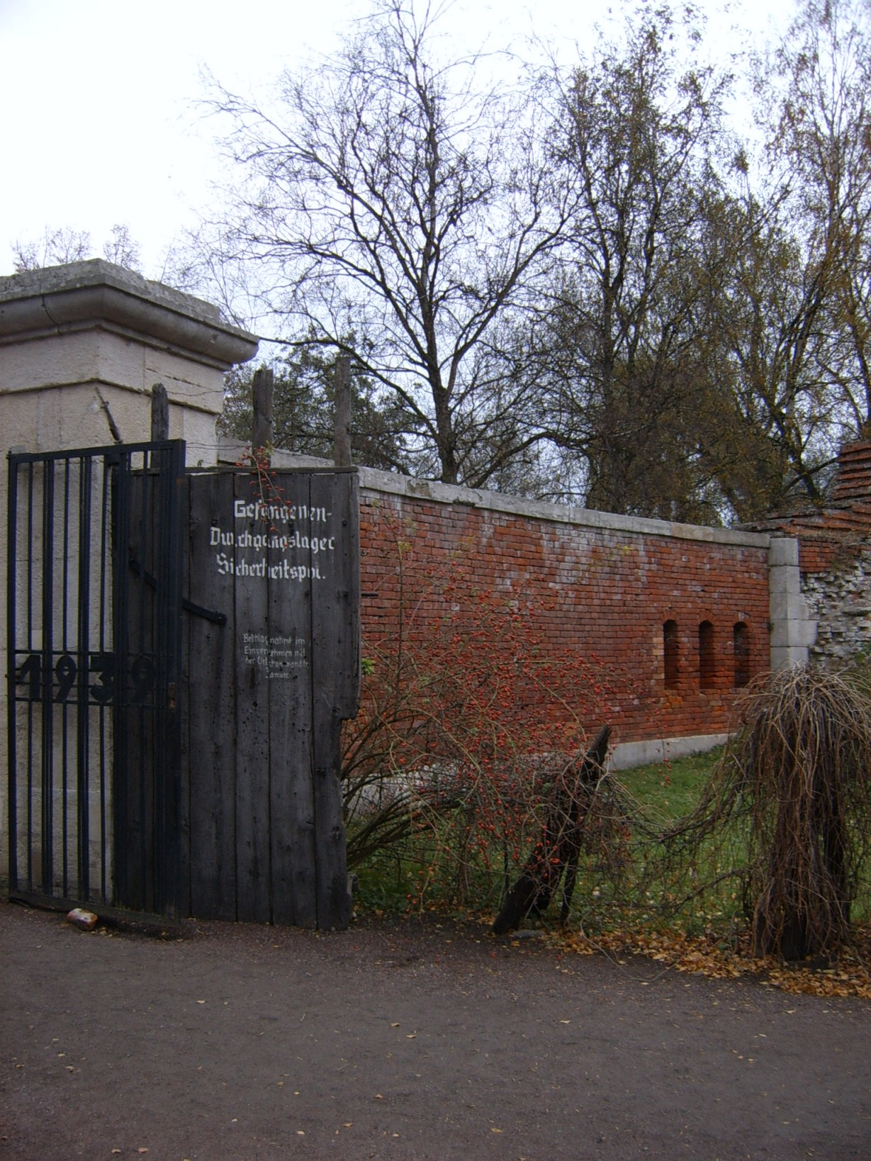 Rotunda Museum